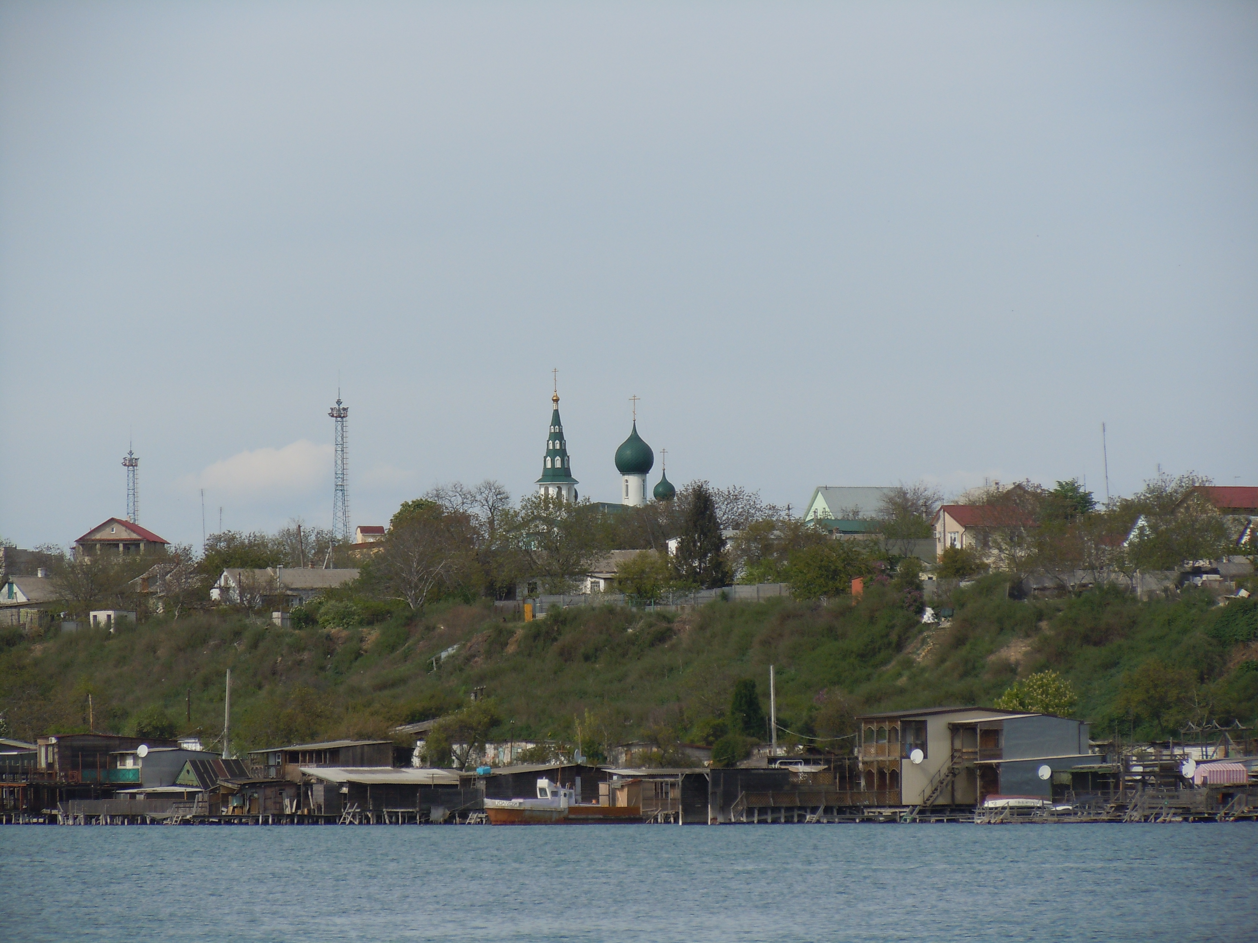 The view of Burlacha Balka, Odessa Oblast, from the Sukhyi Estuary